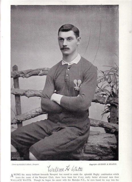 Wallace Watts 1895. Wales and Newport rugby union player.